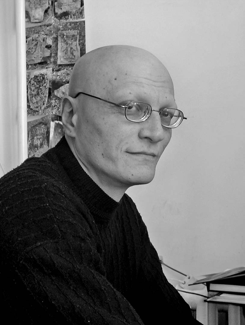 Armenian photographer image from Vahan Kochar's collection. Author:Vahan Kochar